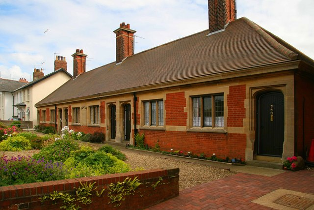 Almshouses on Newbegin, Hornsea, East Riding of Yorkshire, England.These Almshouses were erected in 1908 by Mr Christopher Pickering of The Hall at Hornsea, "for the use of poor persons, to be elected annually by the Vicar and Churchwardens of the Parish Church of St Nicholas".